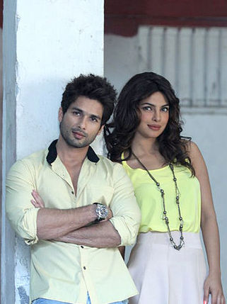 Shahid & Priyanka promote 'Teri Meri Kahaani'